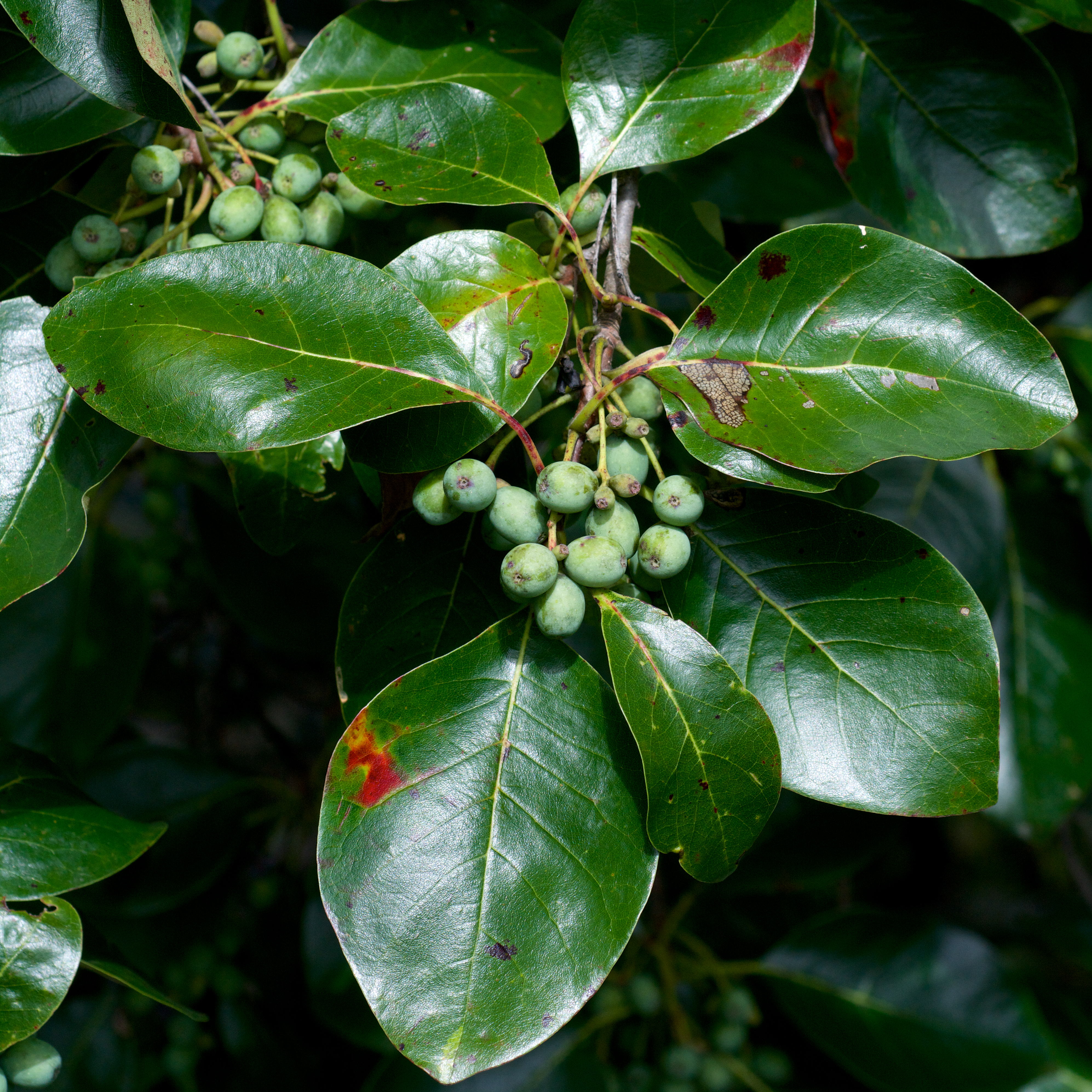 Species from eastern North America Common name: Black Tupelo Photographed along the Kings Bluff Loop at Pedestal Rocks Scenic Area in the Ozark National Forest, Pope County, Arkansas